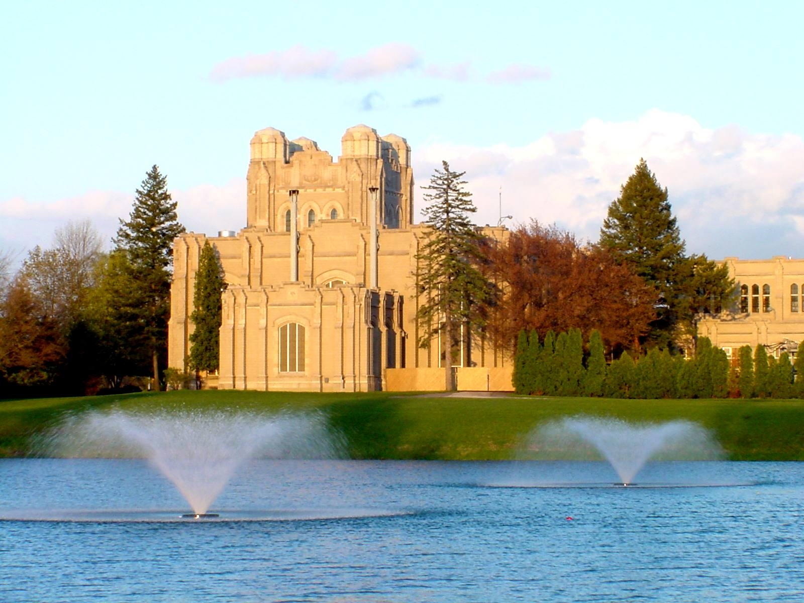 Photo provided by Saginaw Future.